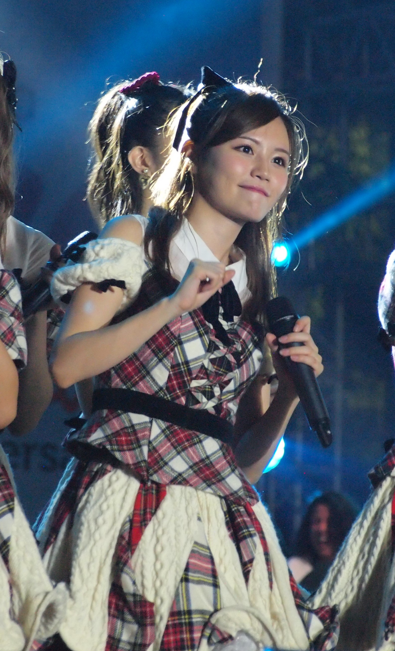 Haruka Komiyama at Jak Japan Matsuri 2018